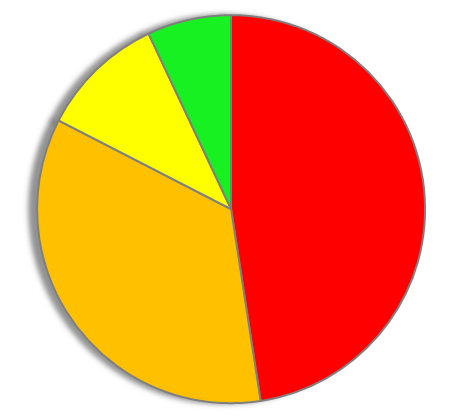 Expressed as a pie chart in the Yamaguchi gubernatorial election in 2012, the number of votes for each candidate.